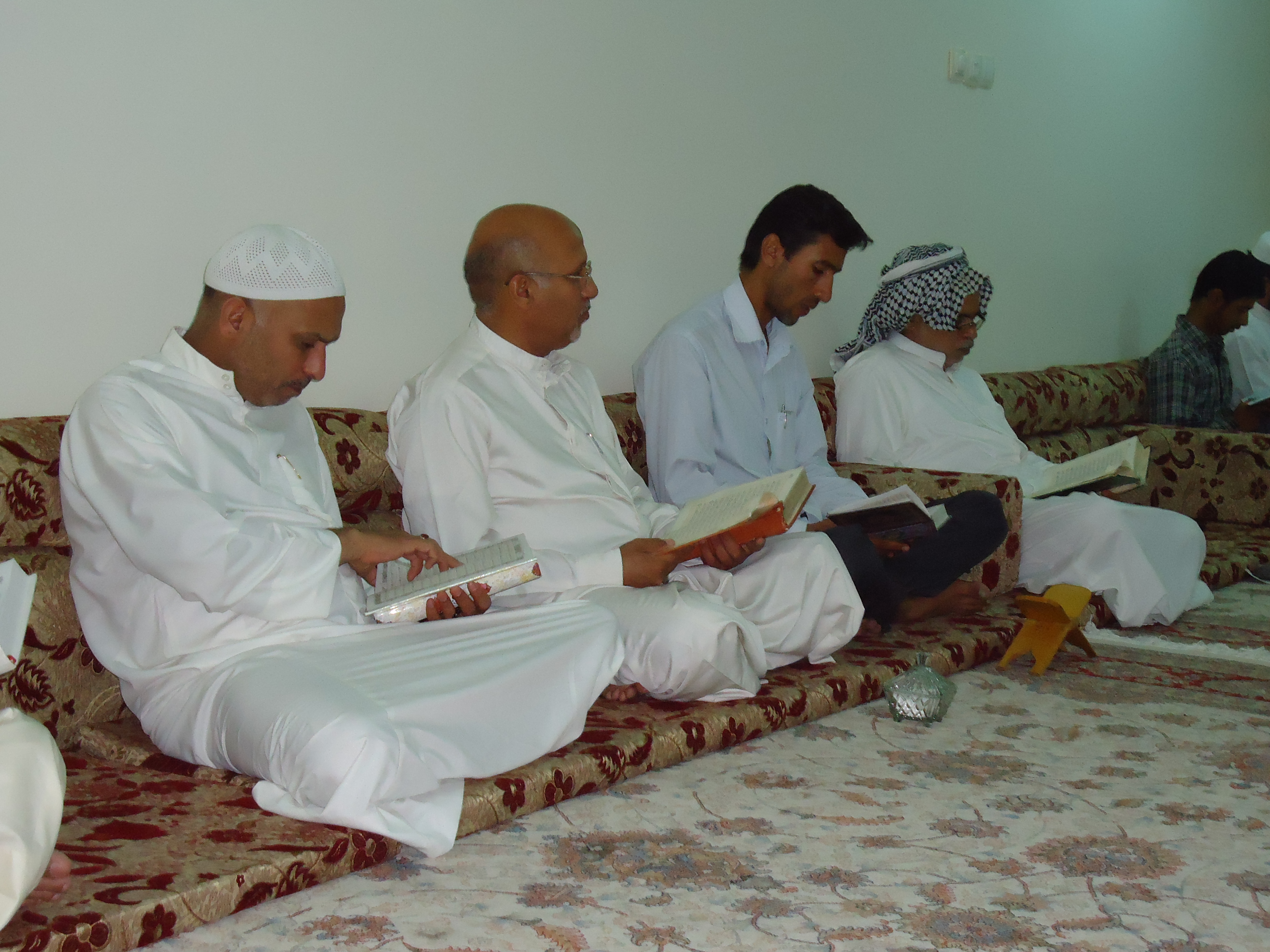 Quran Reading in Ahwaz , Iran